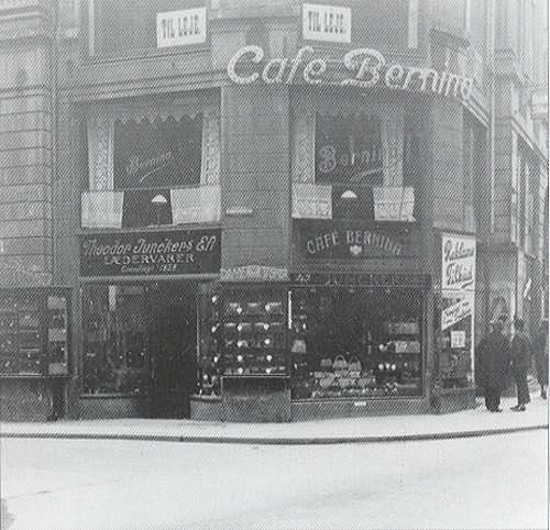 Café Bernina, legendary café in Copenhagen. Opened 1881, closed 1952.